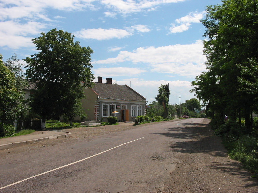 Voynyliv, west Ukraine.